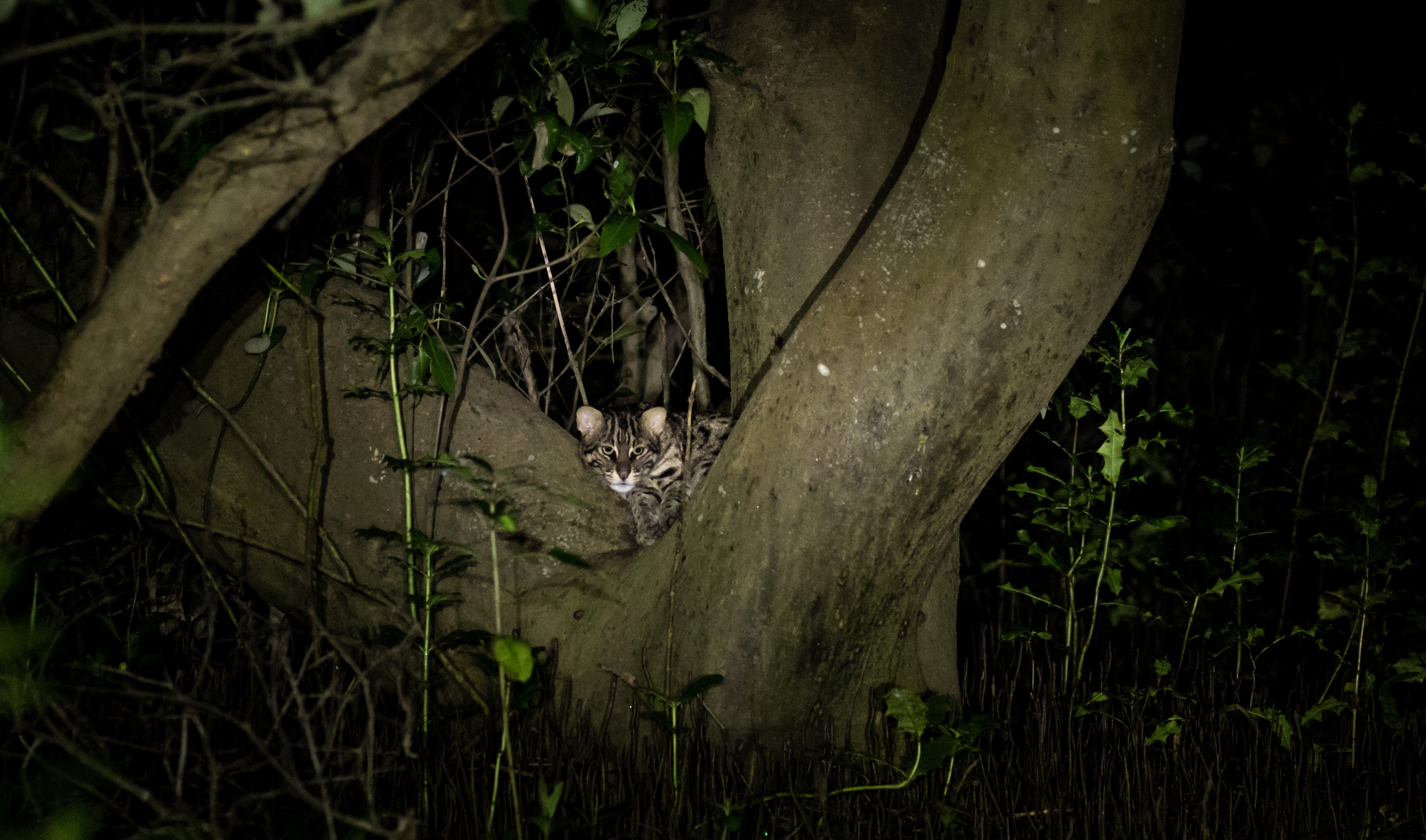 A fishing cat (Prionailurus viverrinus) spotted at Godavari mangroves during night